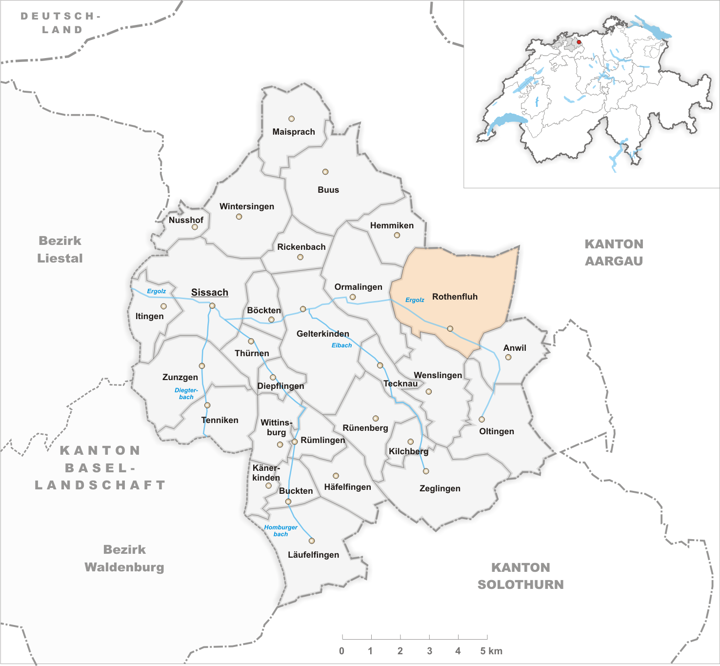 Municipality Rothenfluh